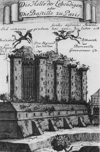 Frontispiece from Die Bastille oder die Hölle der Lebenden, 1719